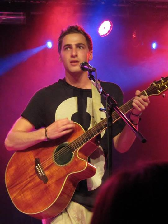 nothing